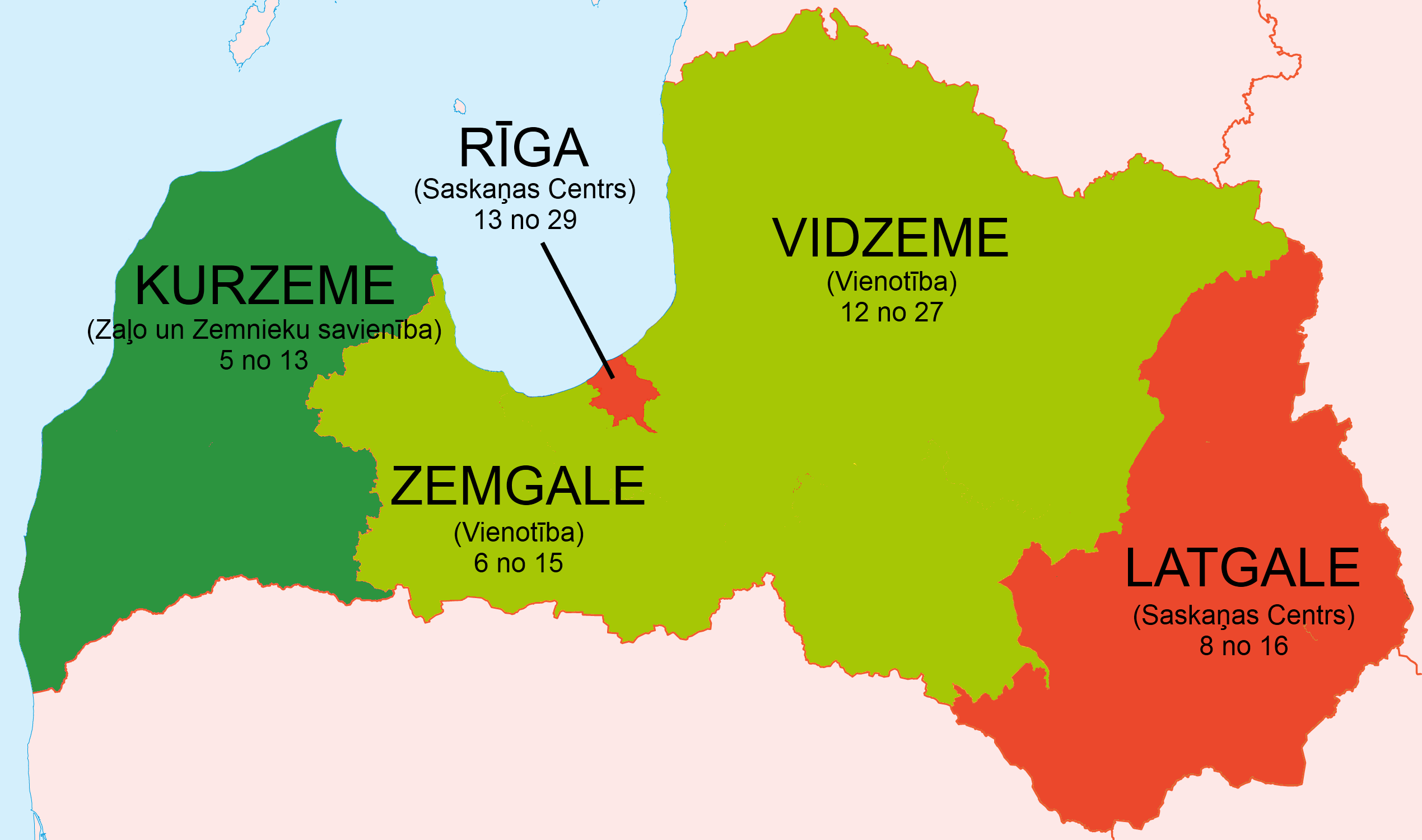 Winners of Latvian 2010 parliamentary election by electoral districts. Red: Harmony Centre. Light green: Unity. Dark green: Union of Greens and Farmers.